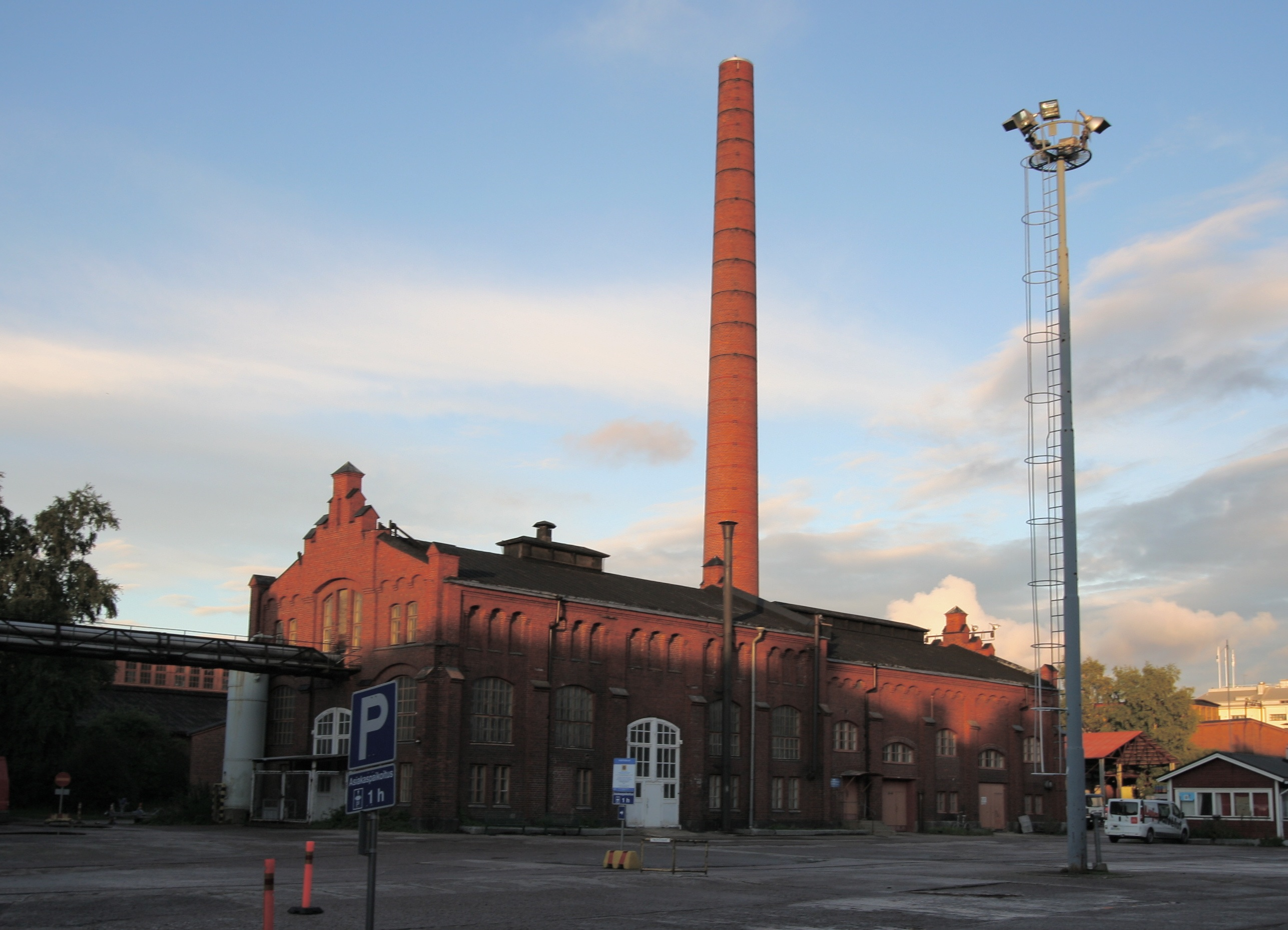 Vallila railway works